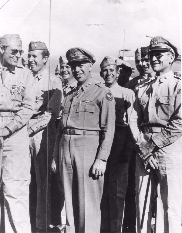 American officers Lieutenant Colonel Richard H Carmichael, 19th Bomb Group CO, Major General George C. Kenney, 5th Air Force CO, and Brigadier General Kenneth N. Walker, V Bombing Command CO at Port Moresby, New Guinea, 1942